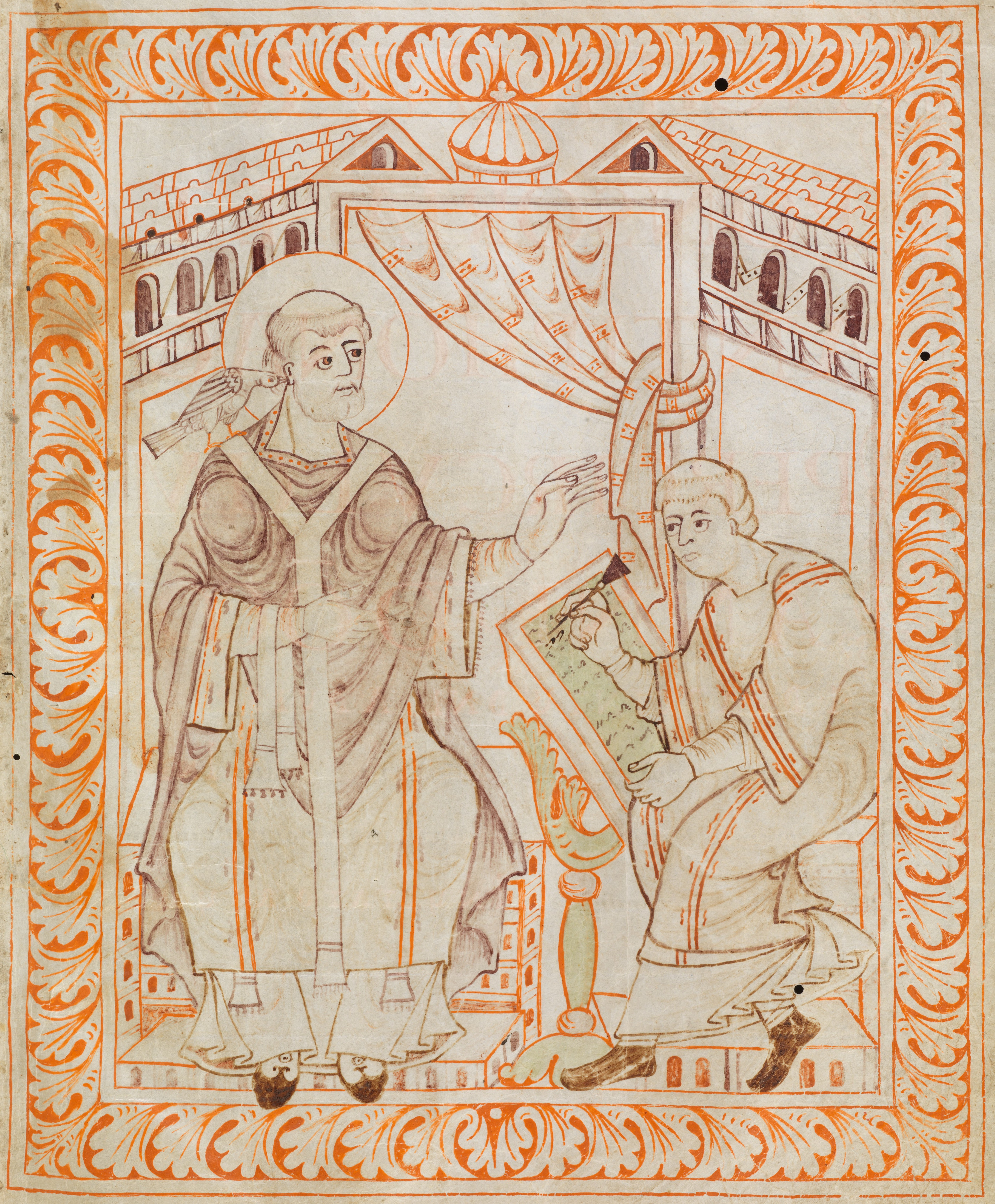 Pope Gregorius I dictating the gregorian chants